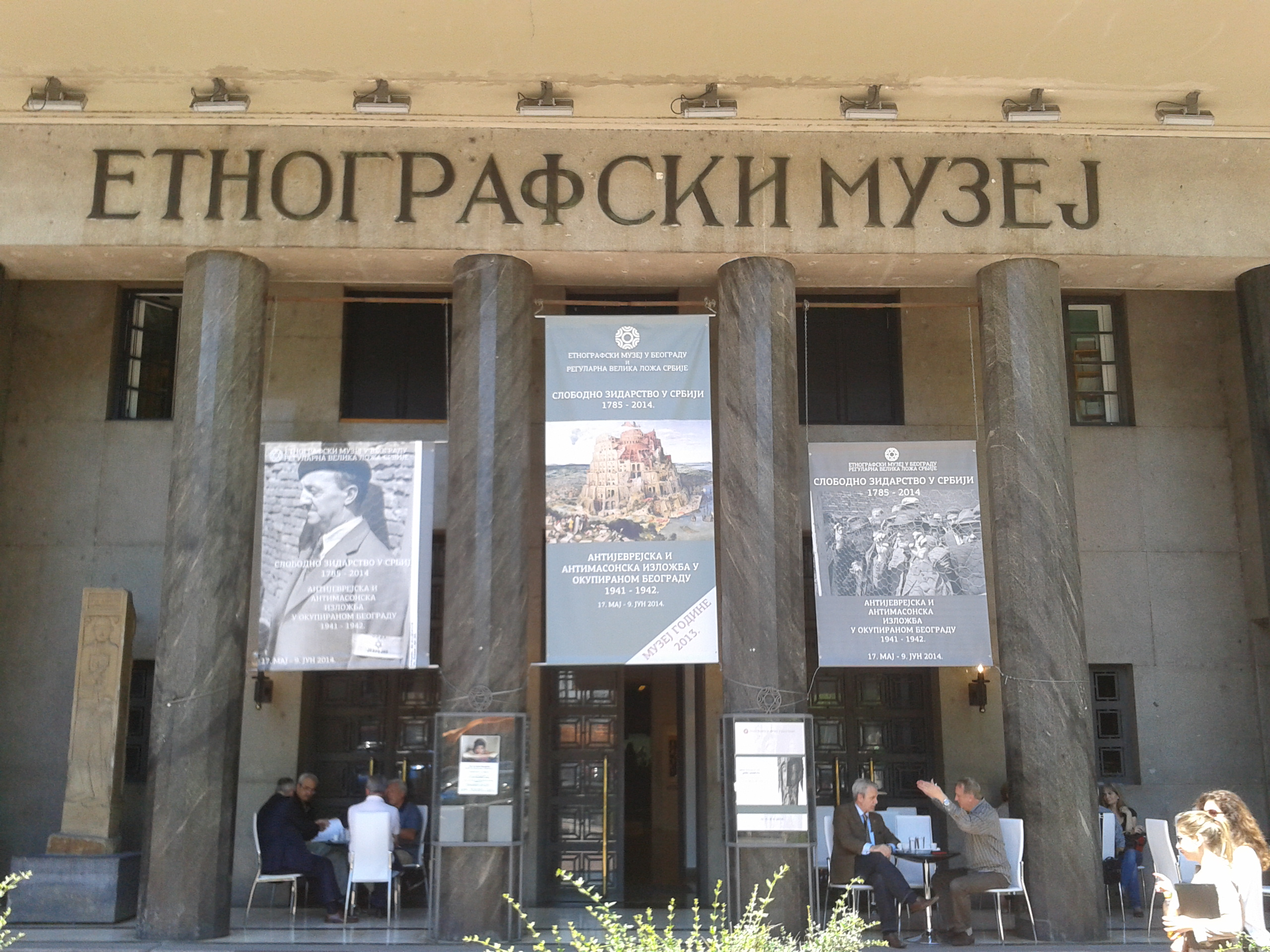 Entrance to the Ethnographic museum in Belgrade during its anti-Jewish and anti-Mason exhibition exhibition.